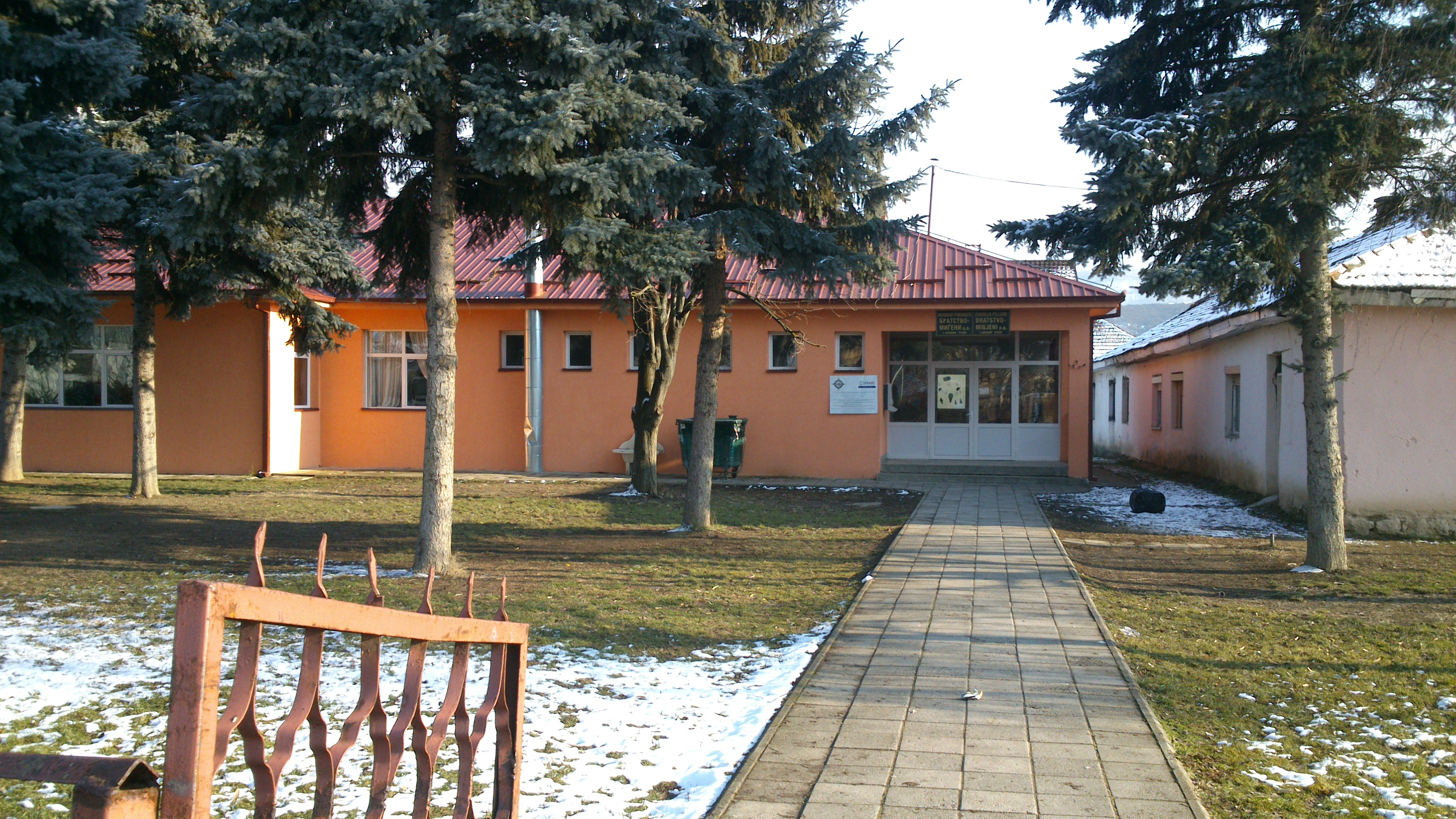 Primary School in Sarakino, Tetovo, Macedonia